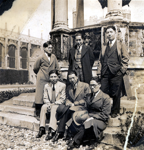 Some Chinese students who accepted UK's Boxer Rebellion Indemnity Scholarship were in London. sitters (left to right):Kwoh-Ting Li, Tang Peijing, Chow Hung‐Ching standers (left to right): Unknown, Wu Qiyuan, Unknown